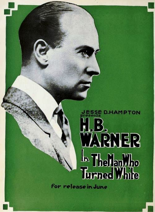 Advertisement for the American drama film The Man Who Turned White (1919) with H. B. Warner, in color insert after page 610 of the May 3, 1919 Moving Picture World.